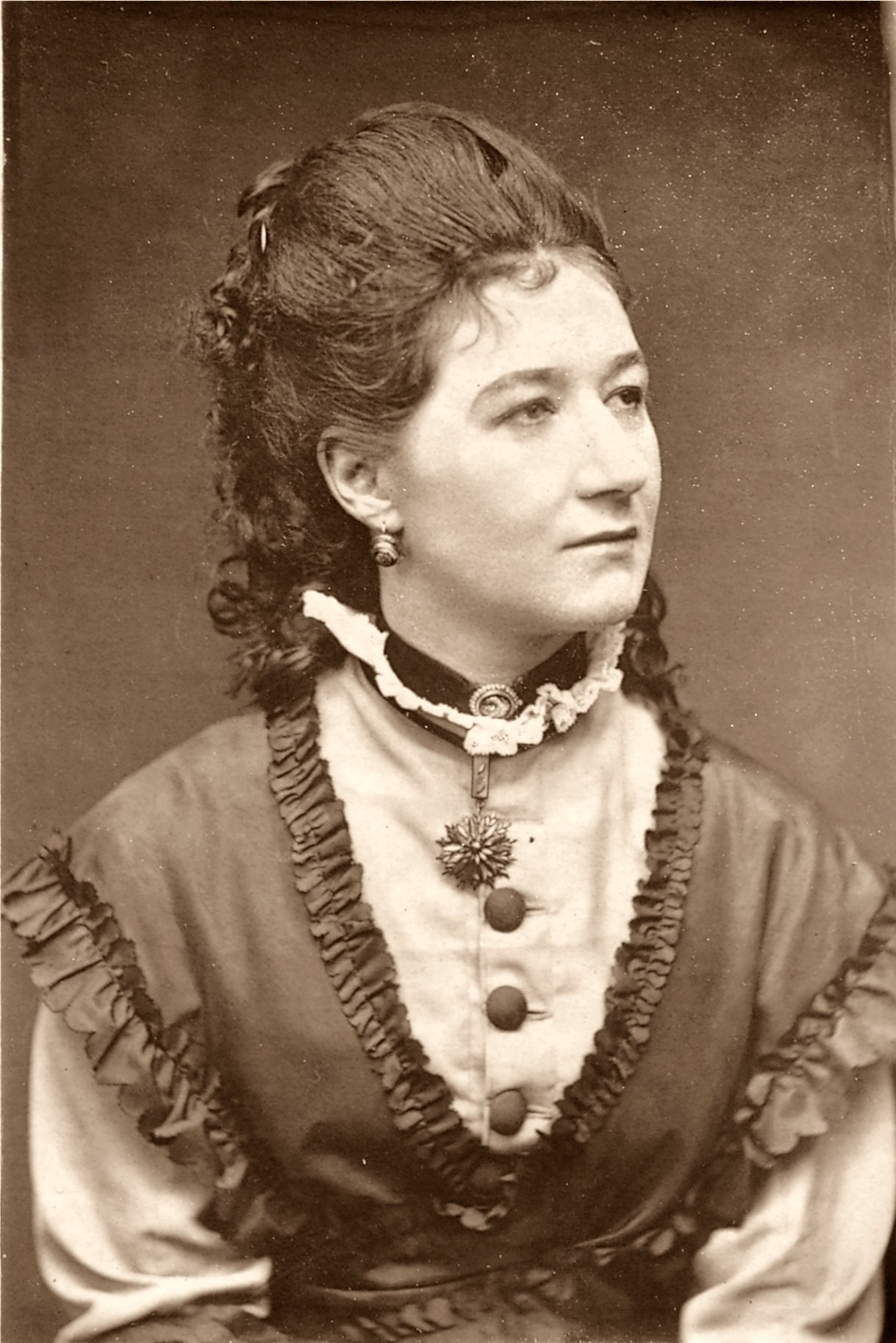 Helen Ernstone, born Angie Schott, English Actress.